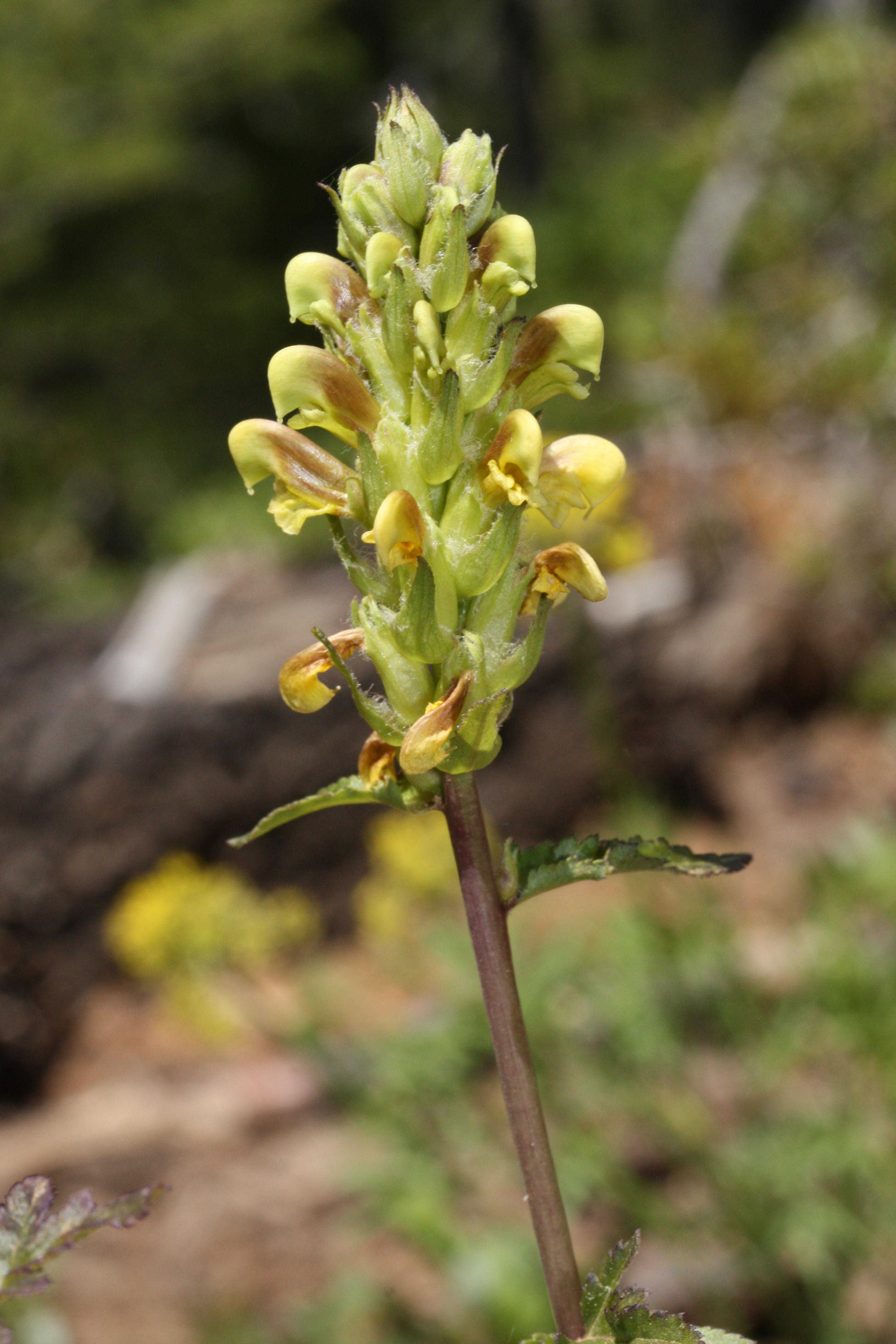 Bracted Lousewort